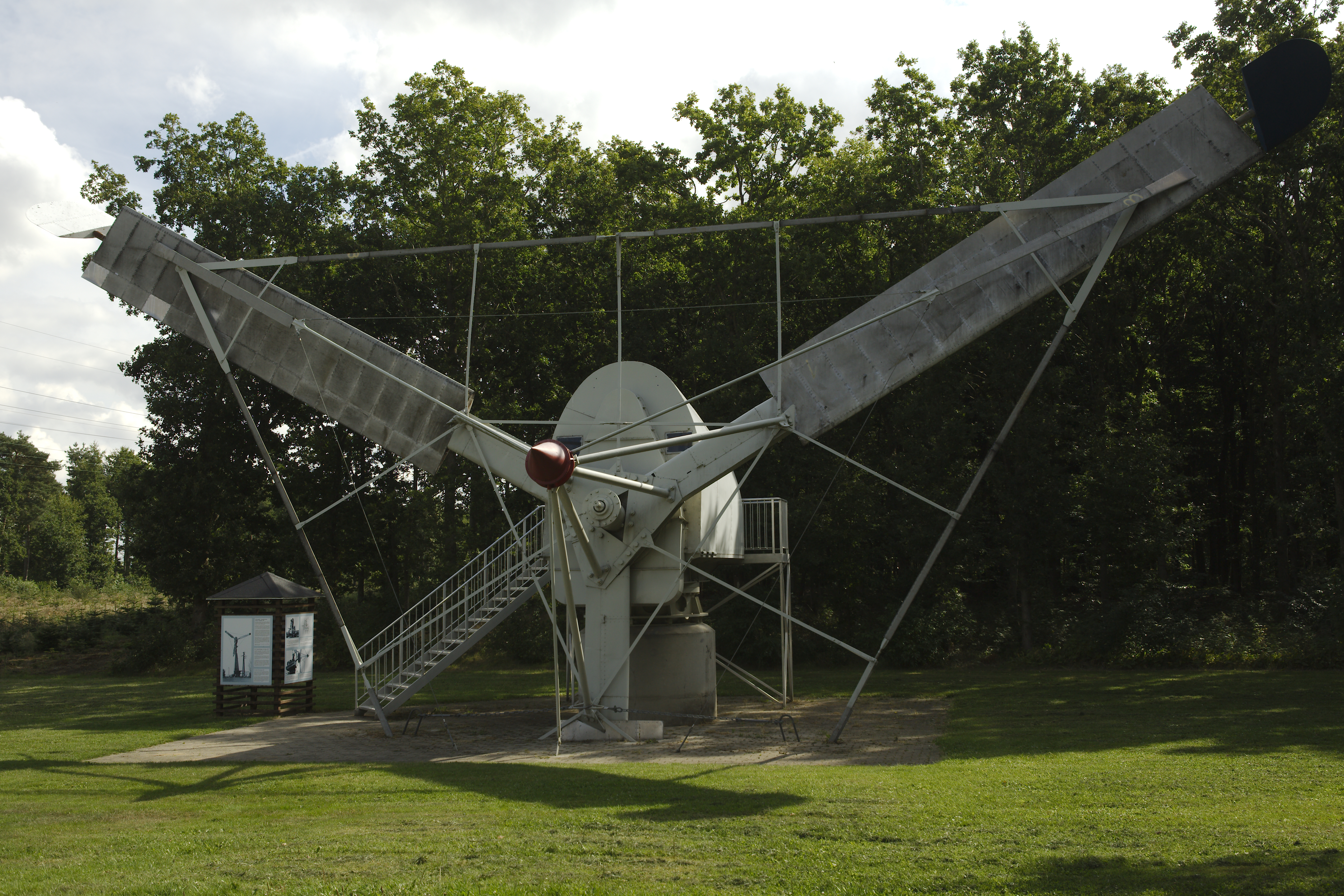 Wings from Gedser wind turbine